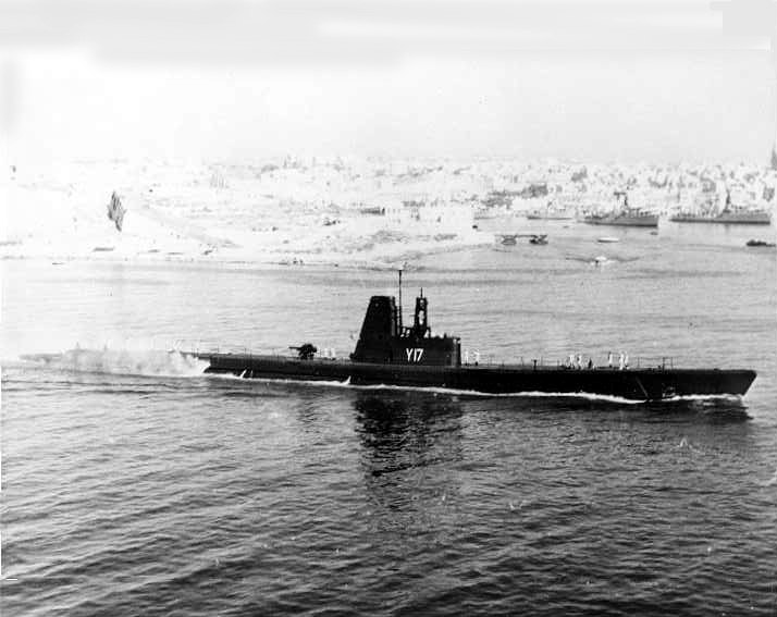 HHMS Amfitriti; The Jack (SS-259) as HHMS Amfitriti (S-17) in August 1961. US Navy photo courtesy of .